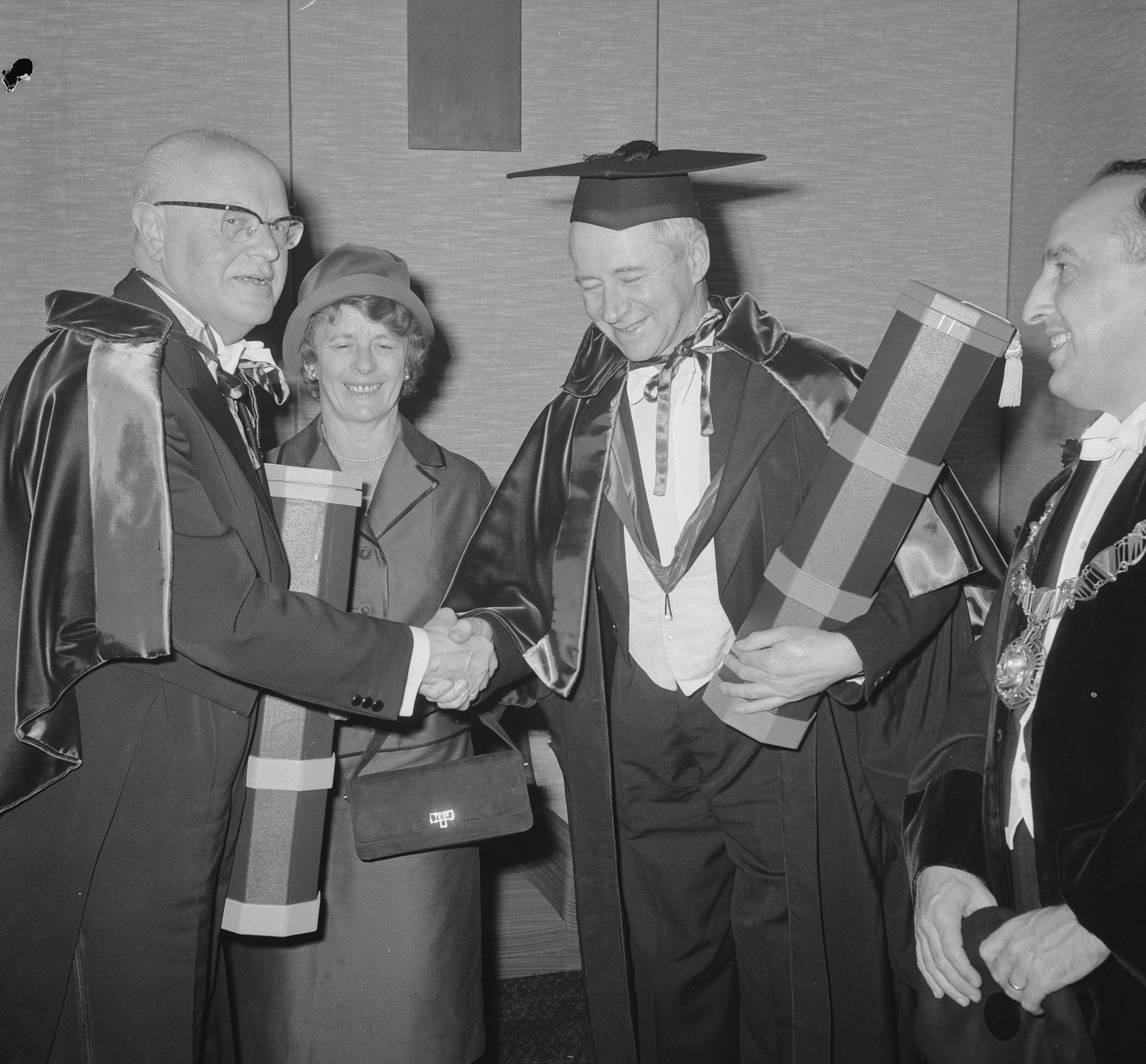 Carl Romme (left) and Colin Clark (eyes closed) receive honorary doctorates at Katholieke Hogeschool Tilburg, 1962. On the right: most probably Tilburg rector Frans van Dooren. Clark's wife Marjorie is standing between Clark and Romme